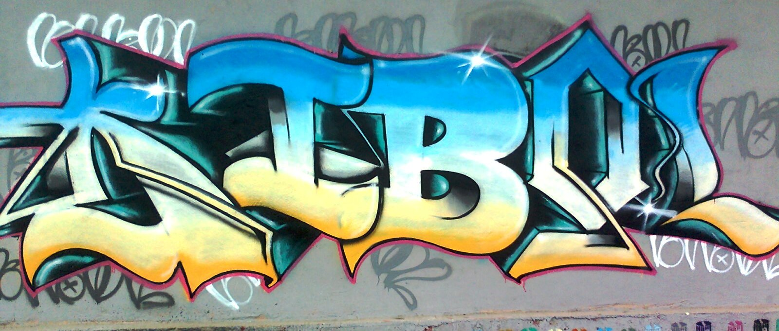 Tijuana urban art form of graffiti located on the east of the city.